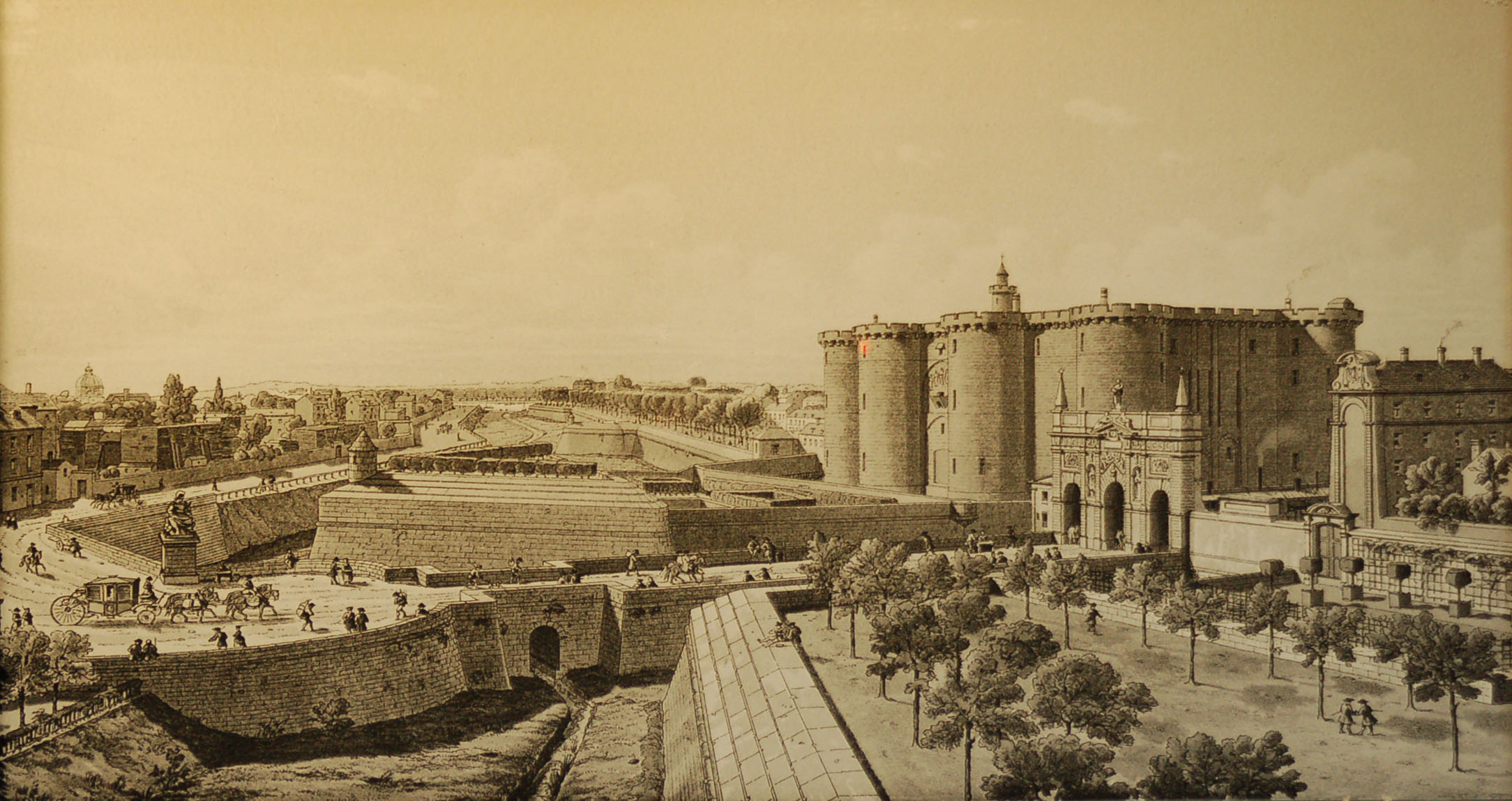 The Bastille (Paris, France) before 1789